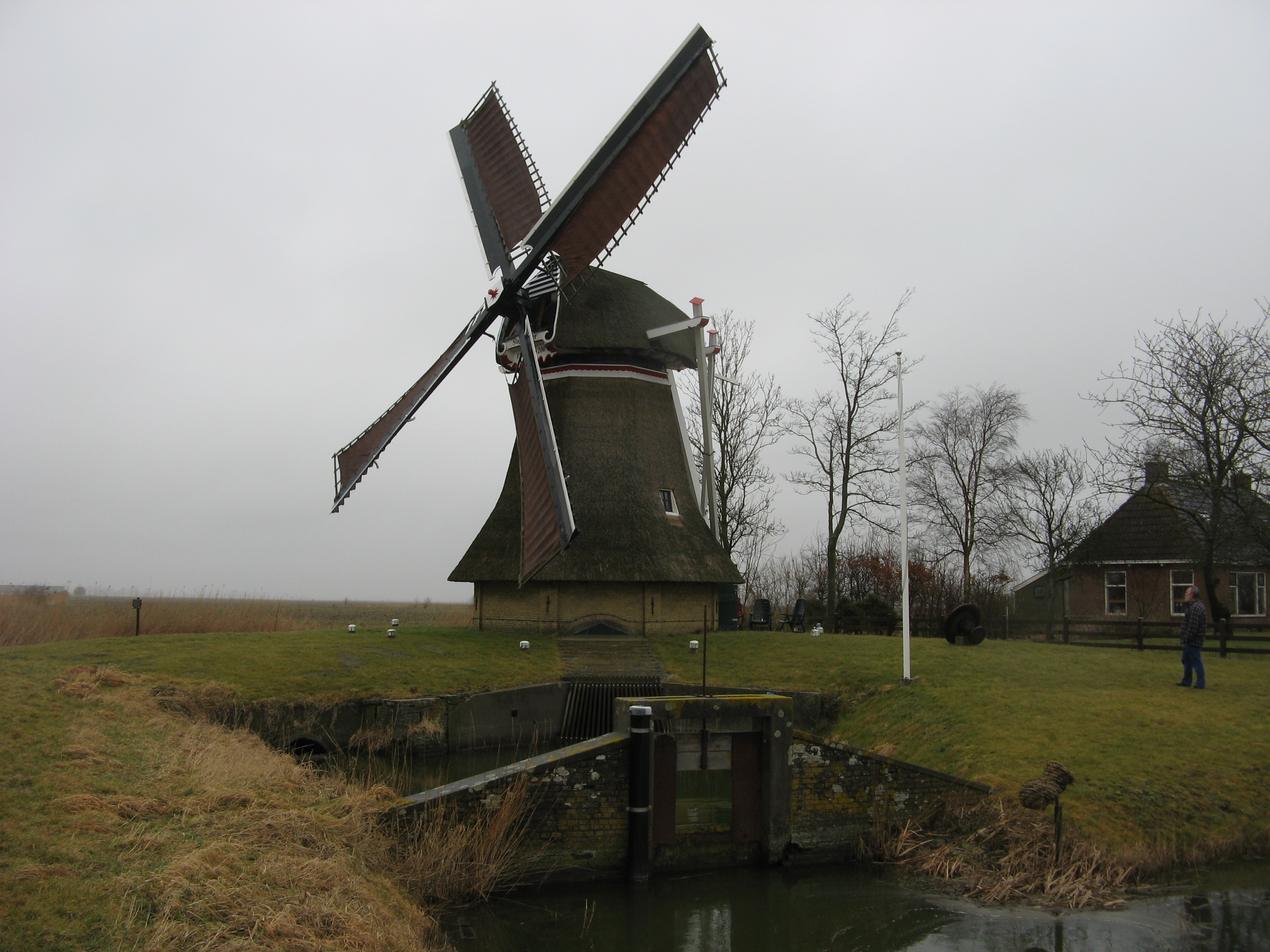 Slagdijkstermolen near Finkum, the Netherlands